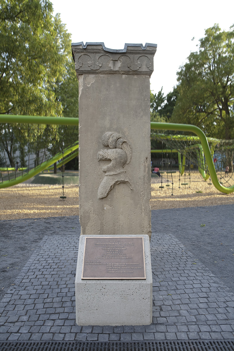 Epitaph General Ferdinand Freiherr von Wintzingerode